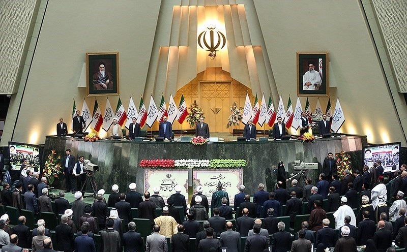 Hassan Rouhani inauguration as President of Iran